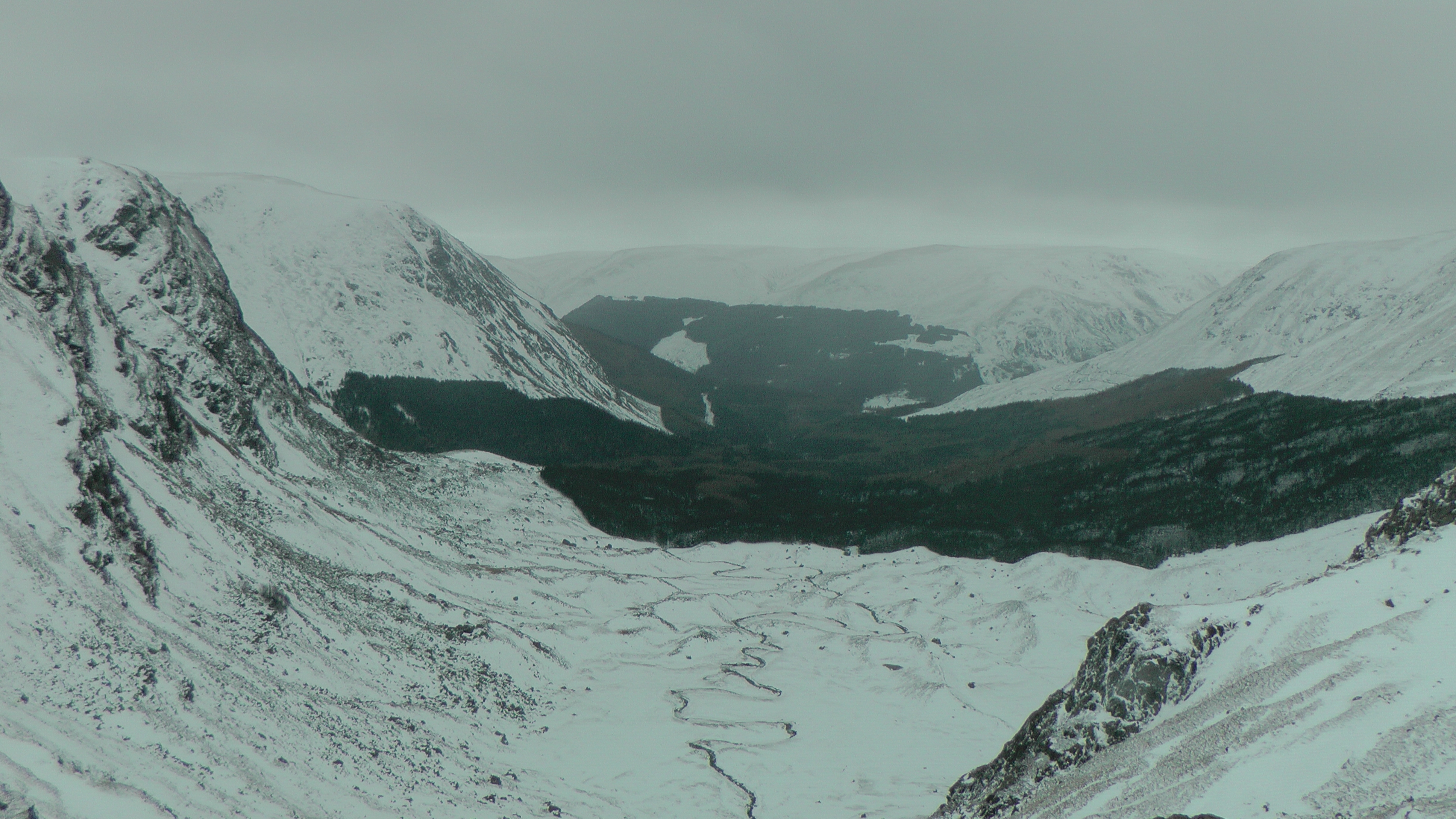 Distant View of Glen Doll forest and Mountain Ranges